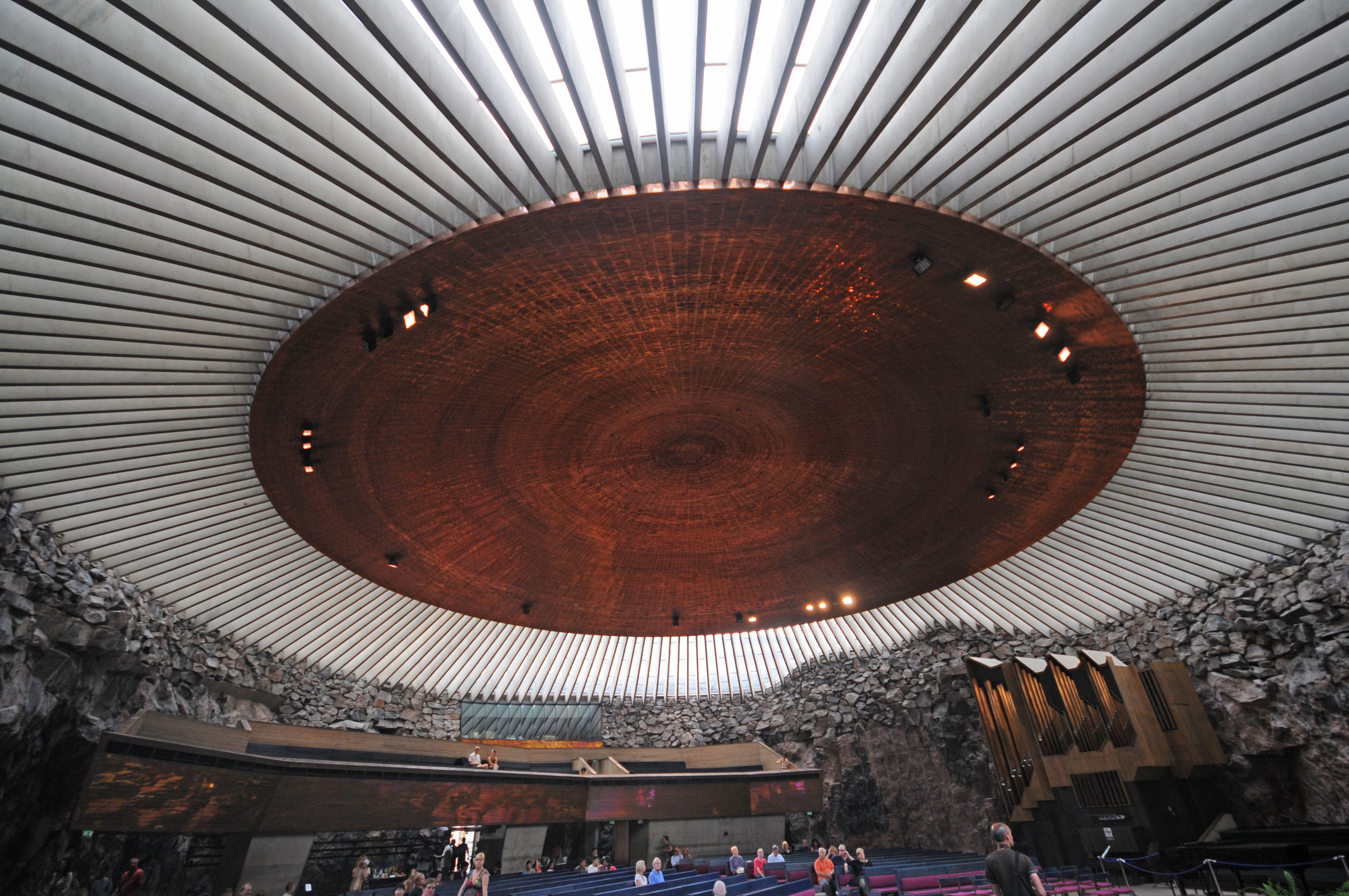 Helsinki, copper roof of the Temppeliaukio Church